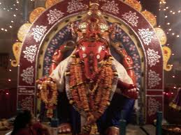 mahaganapati2